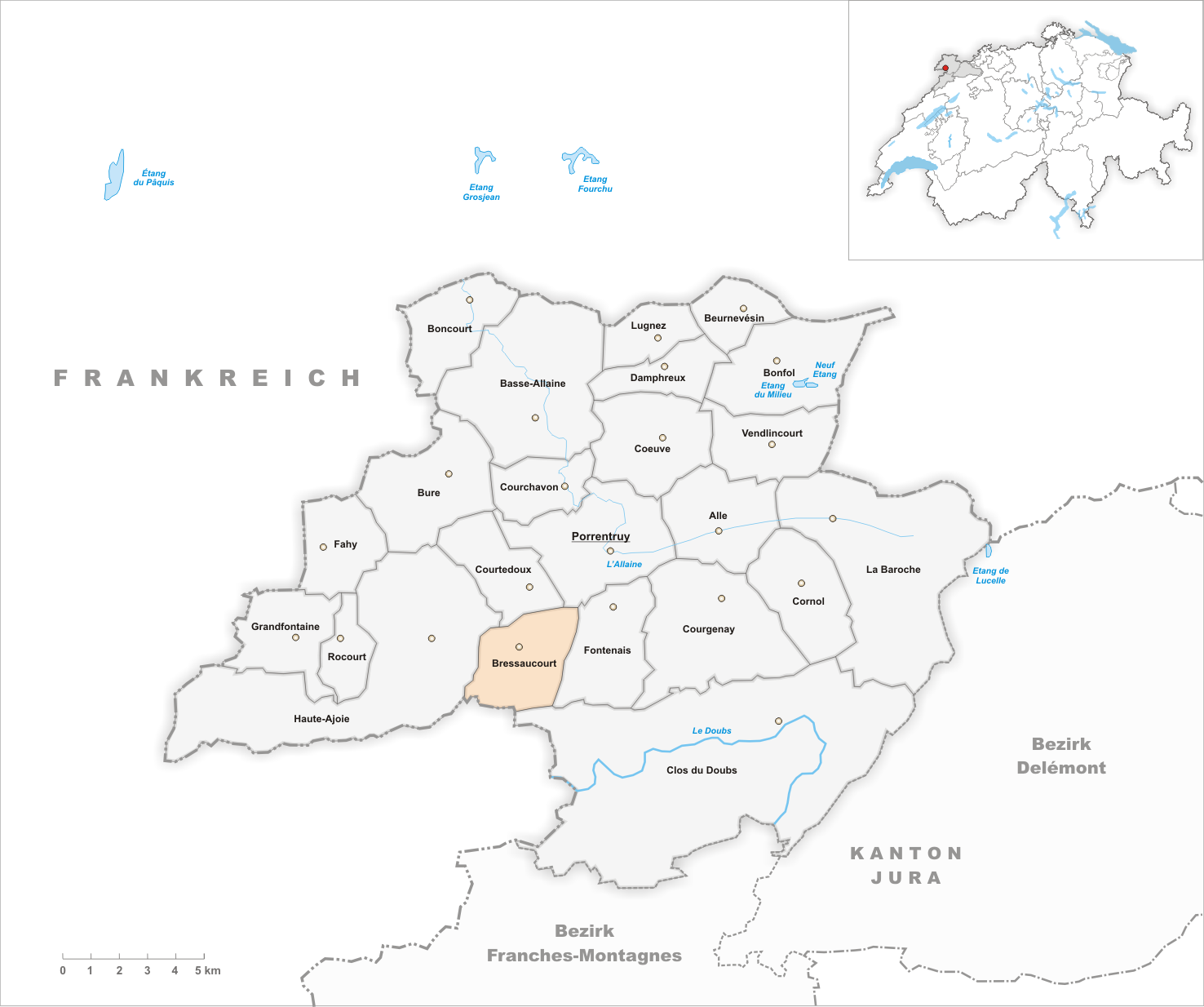 Municipality Bressaucourt